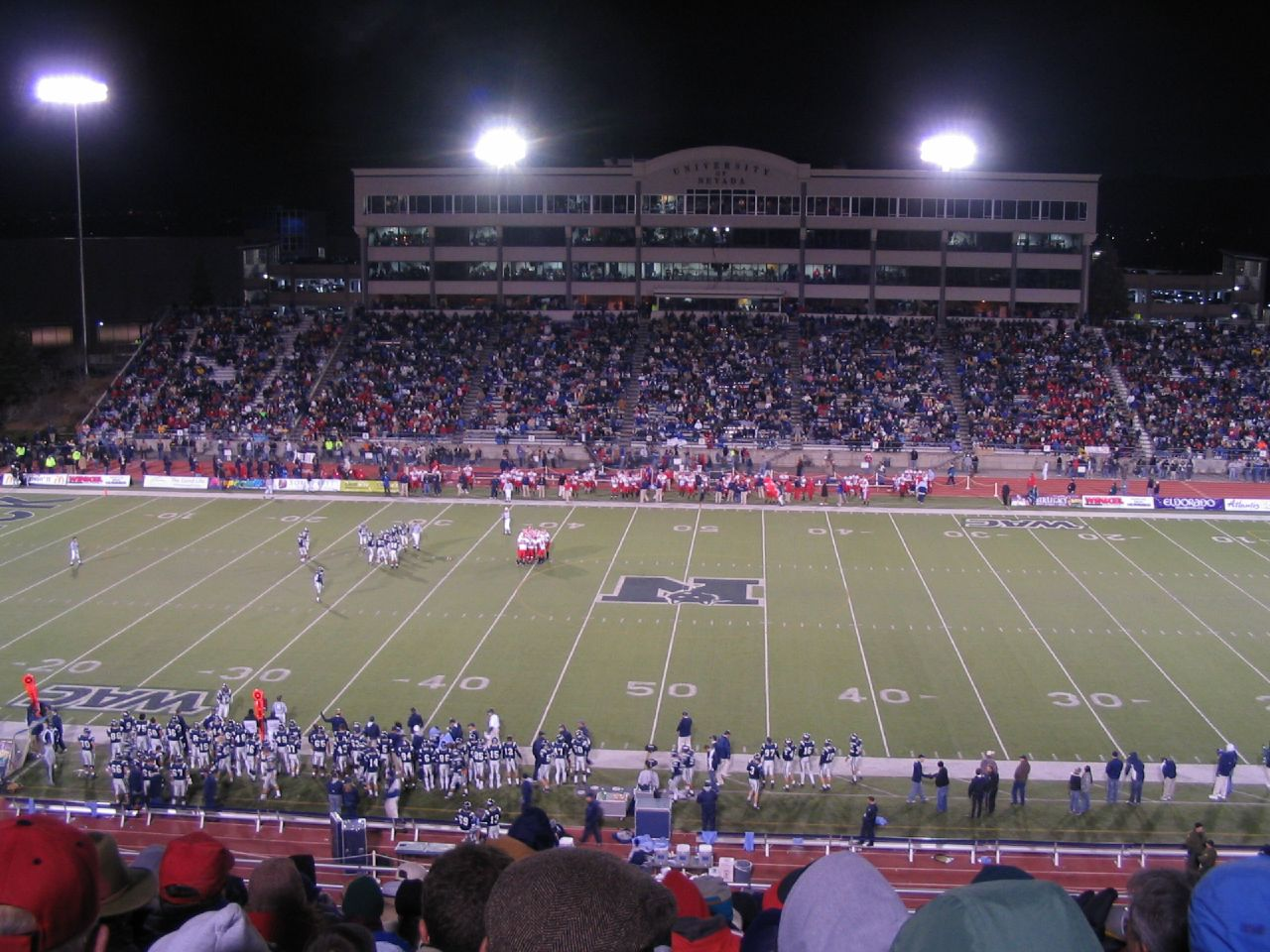 Great upset victory for the Wolf Pack. Mackay Stadium is an outdoor athletic stadium in Reno, Nevada, on the campus of the University of Nevada. It is the university's venue for football and women's soccer for the Nevada Wolf Pack of the Mountain West Conference. Located on the northern portion of campus, at 17th Street & East Stadium Way, the stadium opened in 1966 with a seating capacity of 7,500. It replaced the original Mackay Stadium, formerly located in the bowl containing Hilliard Plaza, the Mack Social Sciences building, and the Reynolds School of Journalism. Both stadiums were named for Clarence Mackay, a university benefactor in the early years of the school. After several expansions, Mackay Stadium currently seats 30,000. The field sits at an elevation of 4,610 feet (1,410 m) above sea level and runs in a NW to SE configuration, with the press box on the southwest sideline. Permanent lighting was installed in 2003 to allow the option of night games. Originally natural grass, synthetic infill FieldTurf was installed in 2000 and replaced in 2010. In 2013, the playing surface at Mackay Stadium was named Chris Ault Field in honor of the former Wolf Pack head coach, College Football Hall of Famer, creator of the Pistol offense in 2005, and for his contributions to Wolf Pack football. The Wolf Pack football single-season attendance record was set in 1991 with a total of 180,457 fans over nine home games, including playoffs; and the regular-season attendance record was set at 151,081 fans in 1993.